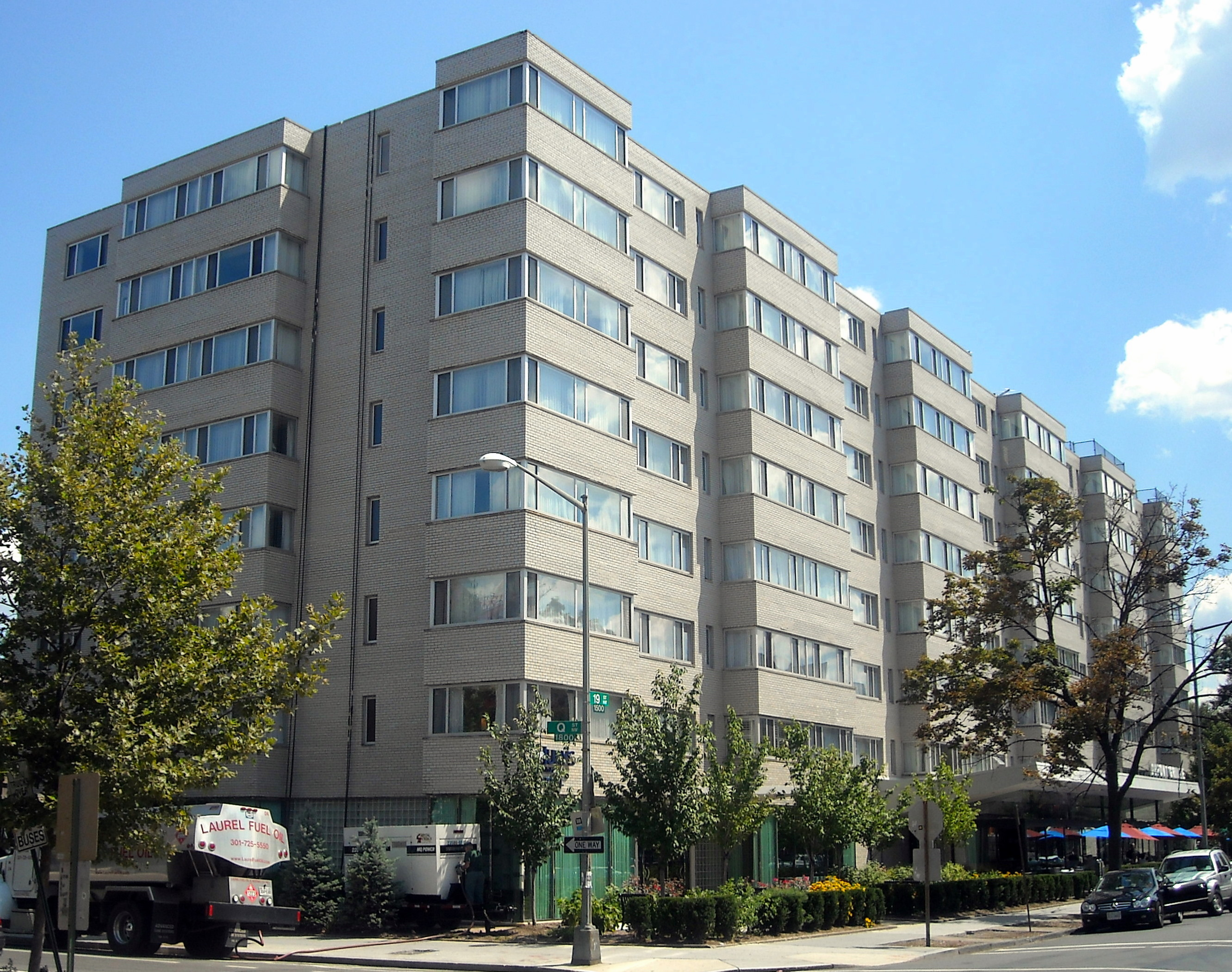 The Dupont Hotel located at 1500 New Hampshire Avenue, NW in the Dupont Circle neighborhood of Washington, D.C. In the past, the building has been known as the Dupont Plaza Hotel and the Jurys Washington Hotel (pictured).